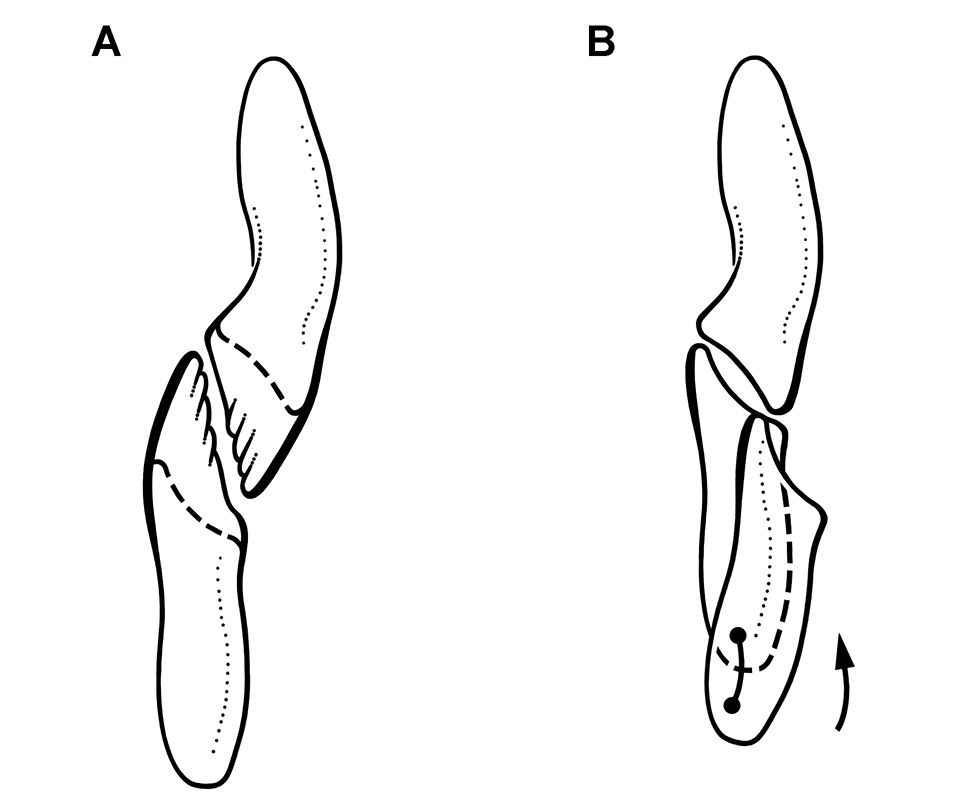 Occlusion and wear between maxillary and dentary teeth in Heterodontosaurus tucki. Reconstruction of left maxillary and dentary teeth in anterior view at different stages of wear A Dentition in a subadult with unworn crowns and near vertical occlusal plane with dashed lines indicating the occlusal surface of a worn crown (based on AMNH 24000) B Worn crowns from the middle of the tooth rows showing labiolingually concave wear facets, which are more concave in dentary than maxillary crowns (based on SAM-PK-K1332). The dentary tooth is shown at the initiation and conclusion of a masticatory stroke, with a dashed line showing the tooth margin hidden from view and registration dots and an arrow indicating tooth movement during occlusion.